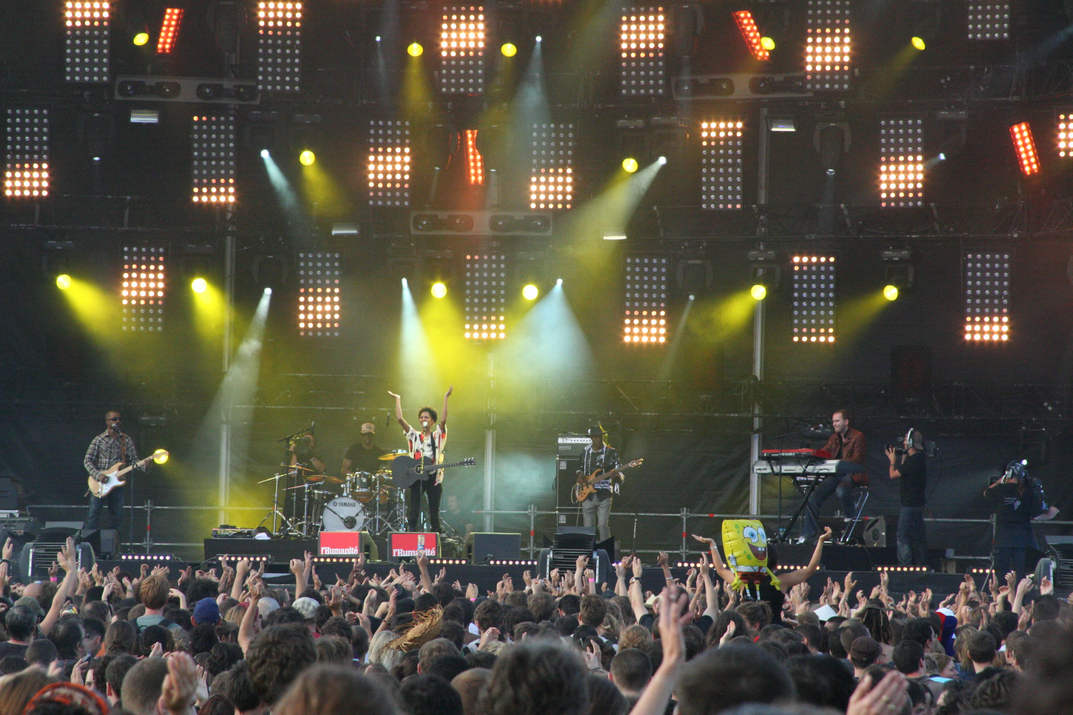 Singer Ayo. performing at the Fete de l'Humanité 2007